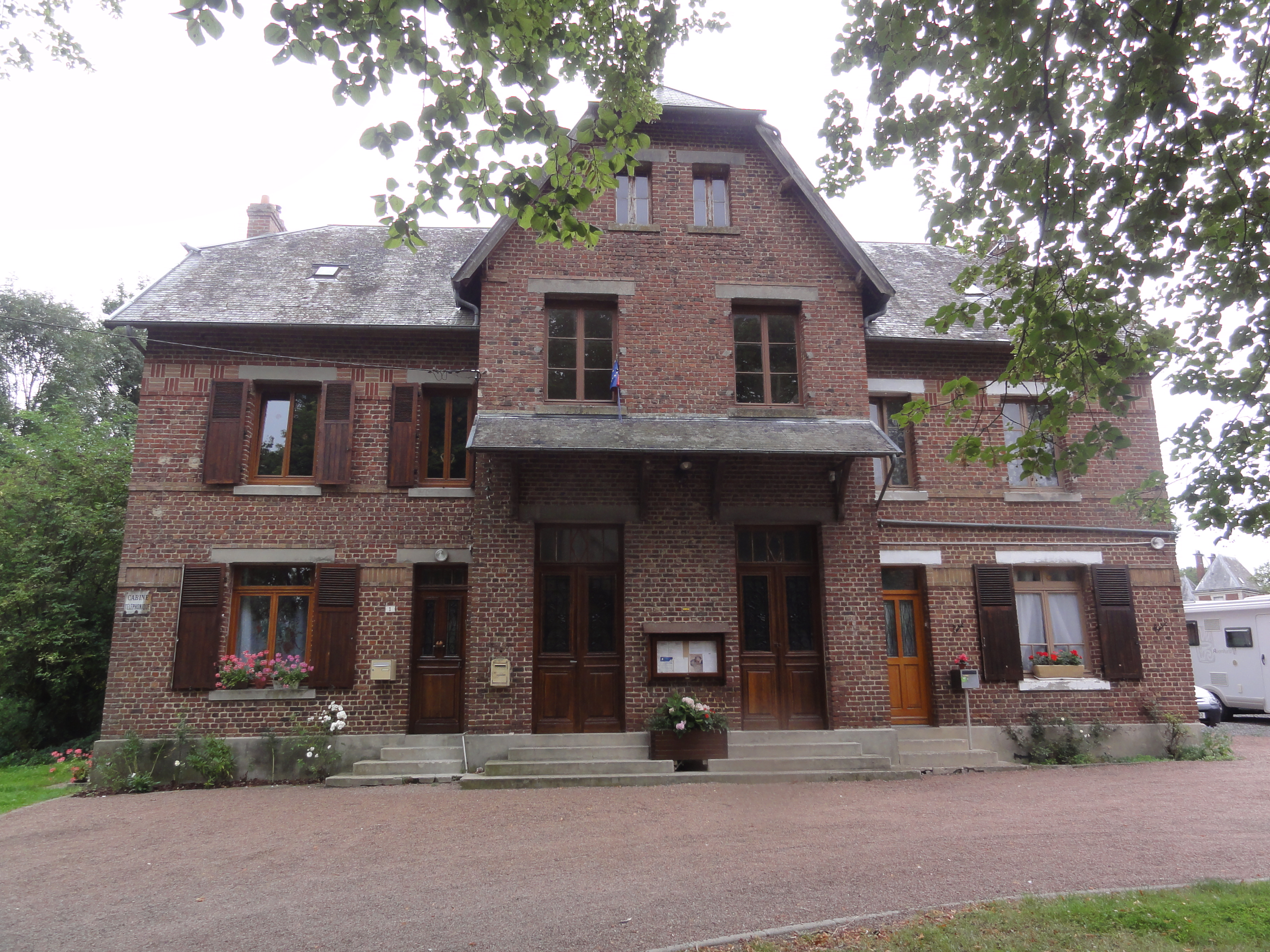 Hinacourt (Aisne) mairie